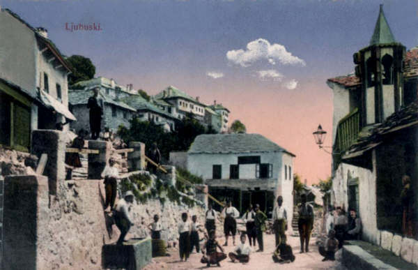 Ljubuški - Gožulj